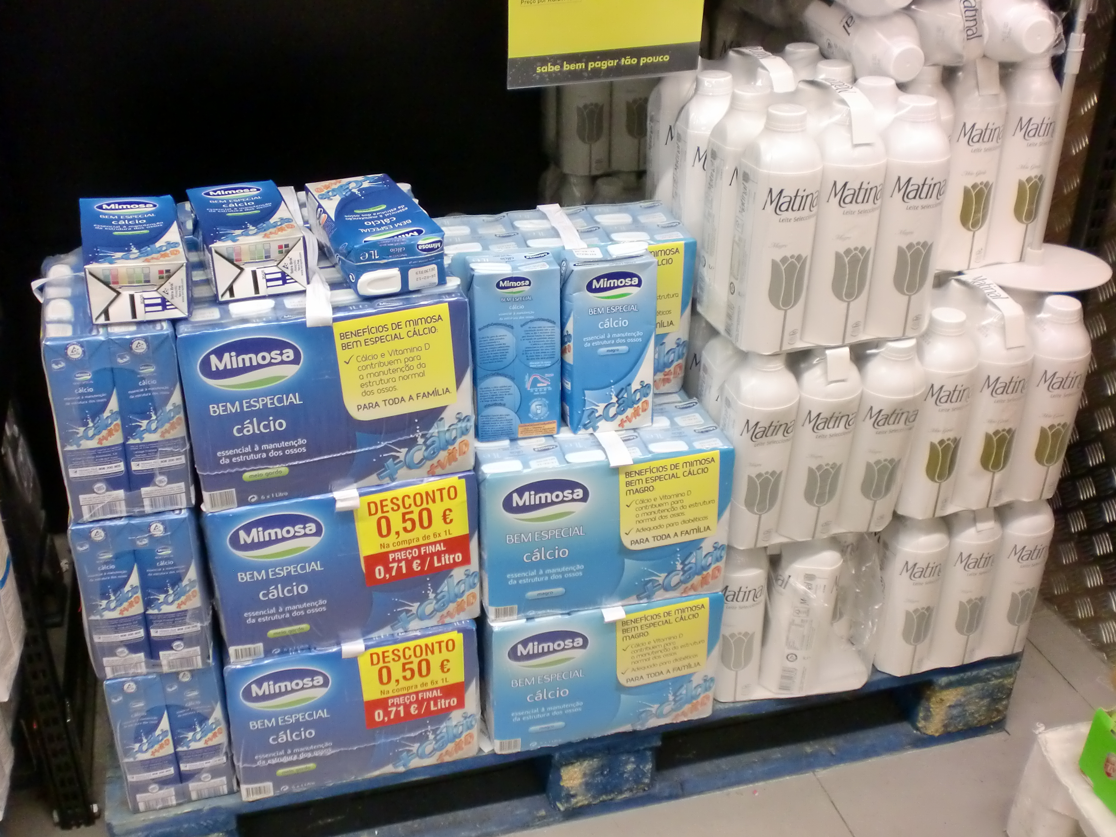 Lactogal brands Matinal and Mimosa. Photo taken at a Pingo Doce supermarket, in Coimbra.